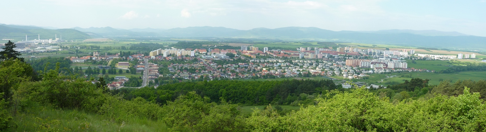 panorama ziar nad hronom